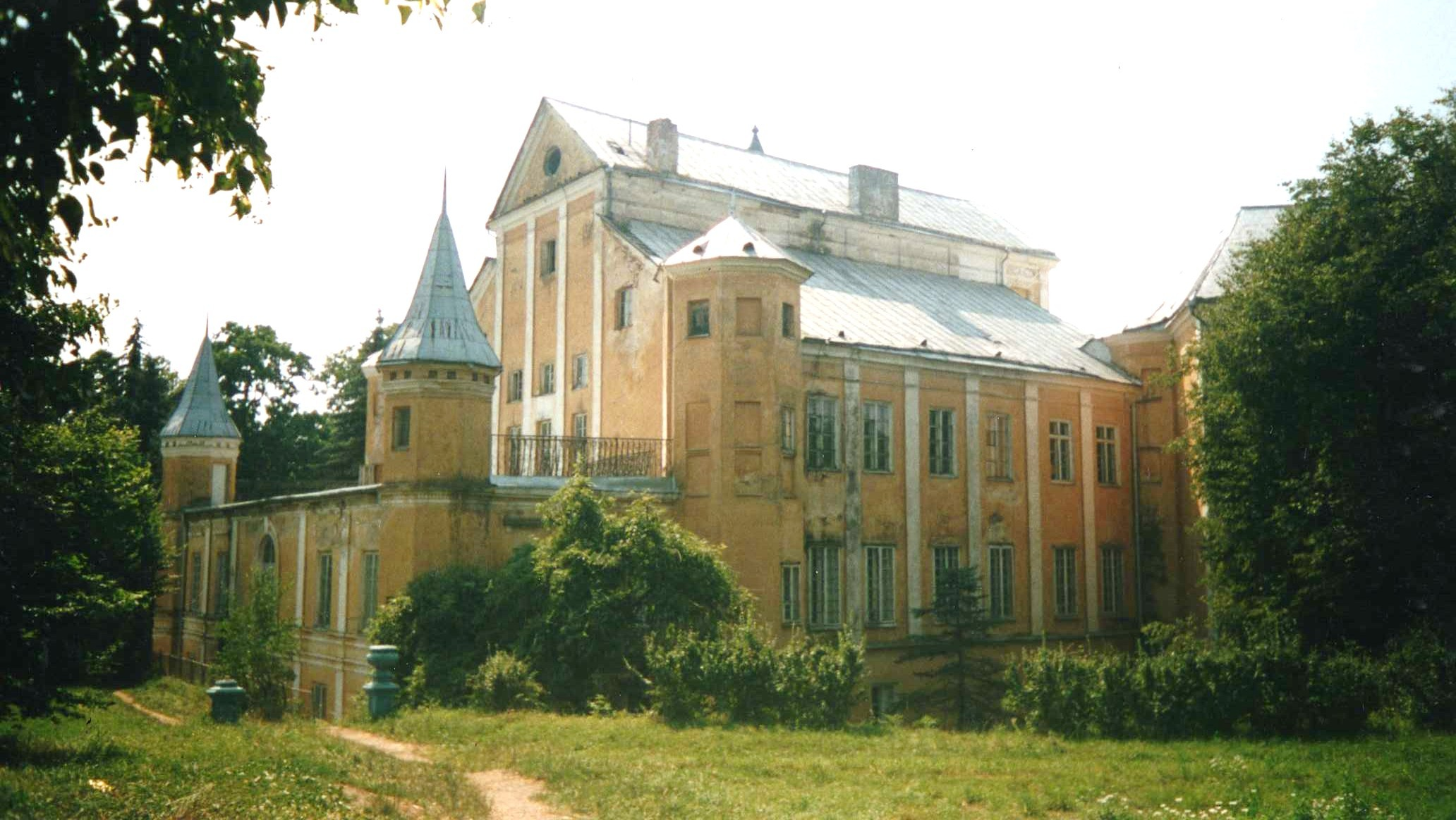 Niasvizh castle, Belarus, summer 2004.